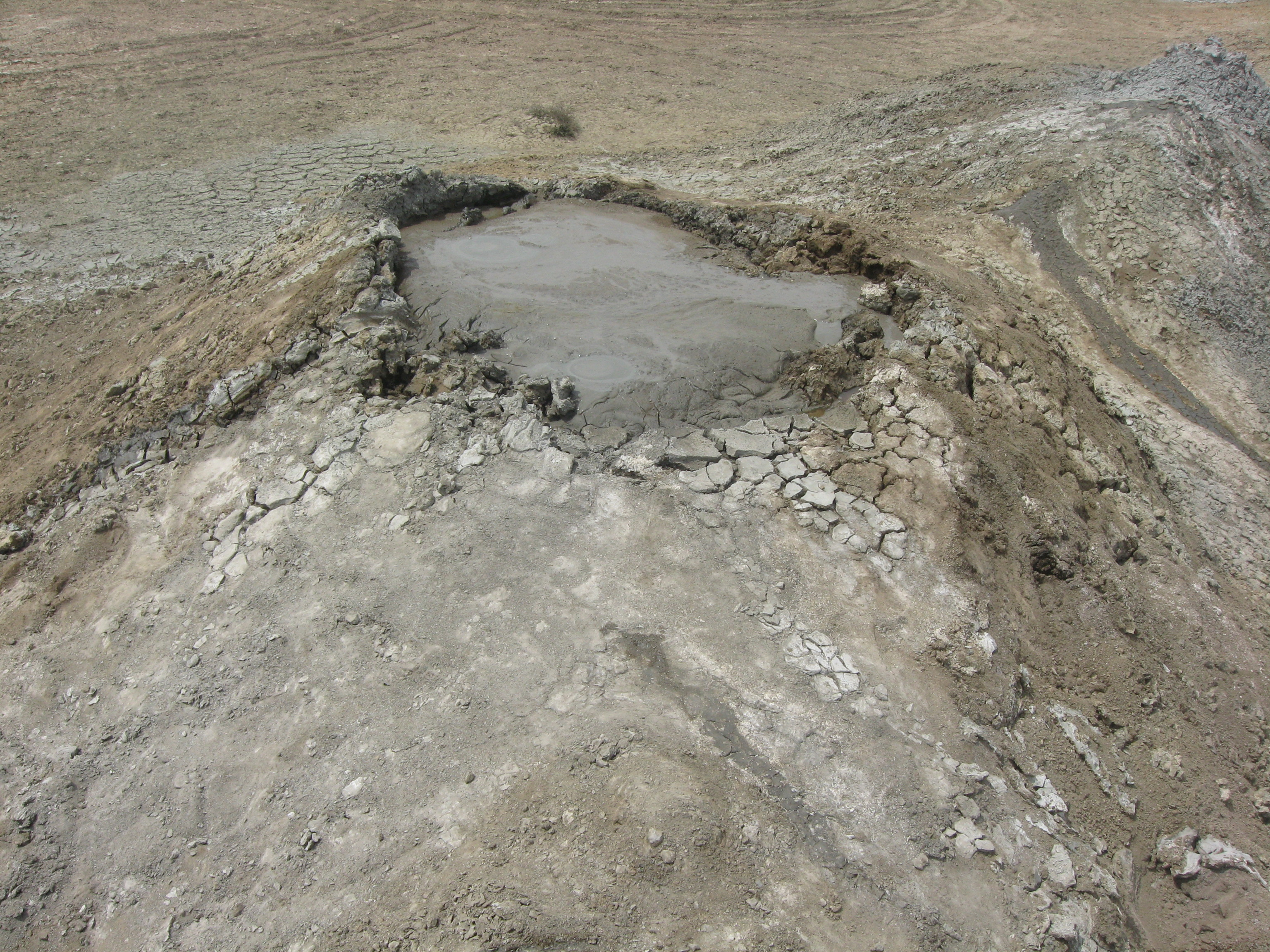 Mud volcanoe in Azerbaijan. Gobustan Rayon.